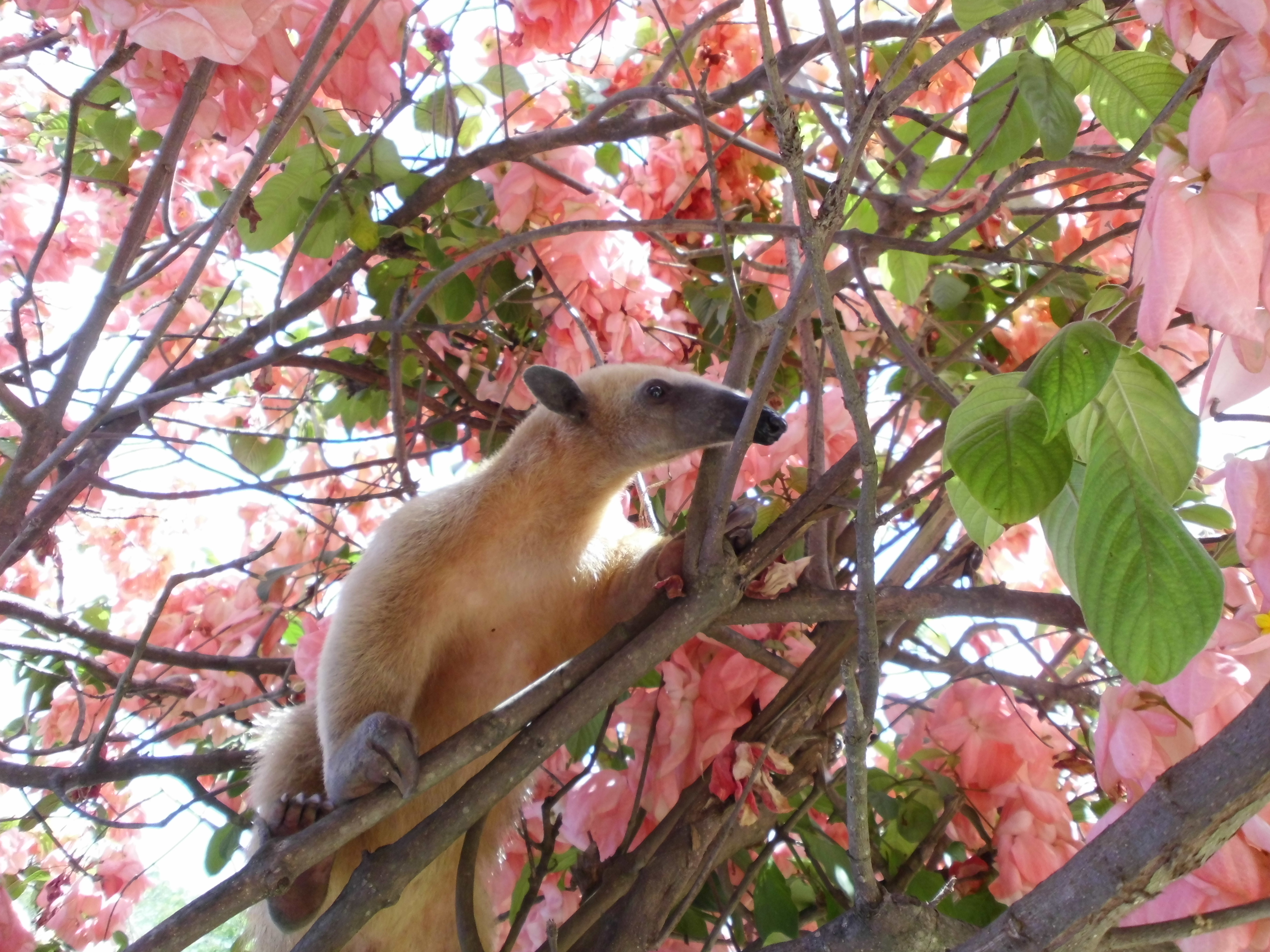 Tamandua tertradactyla